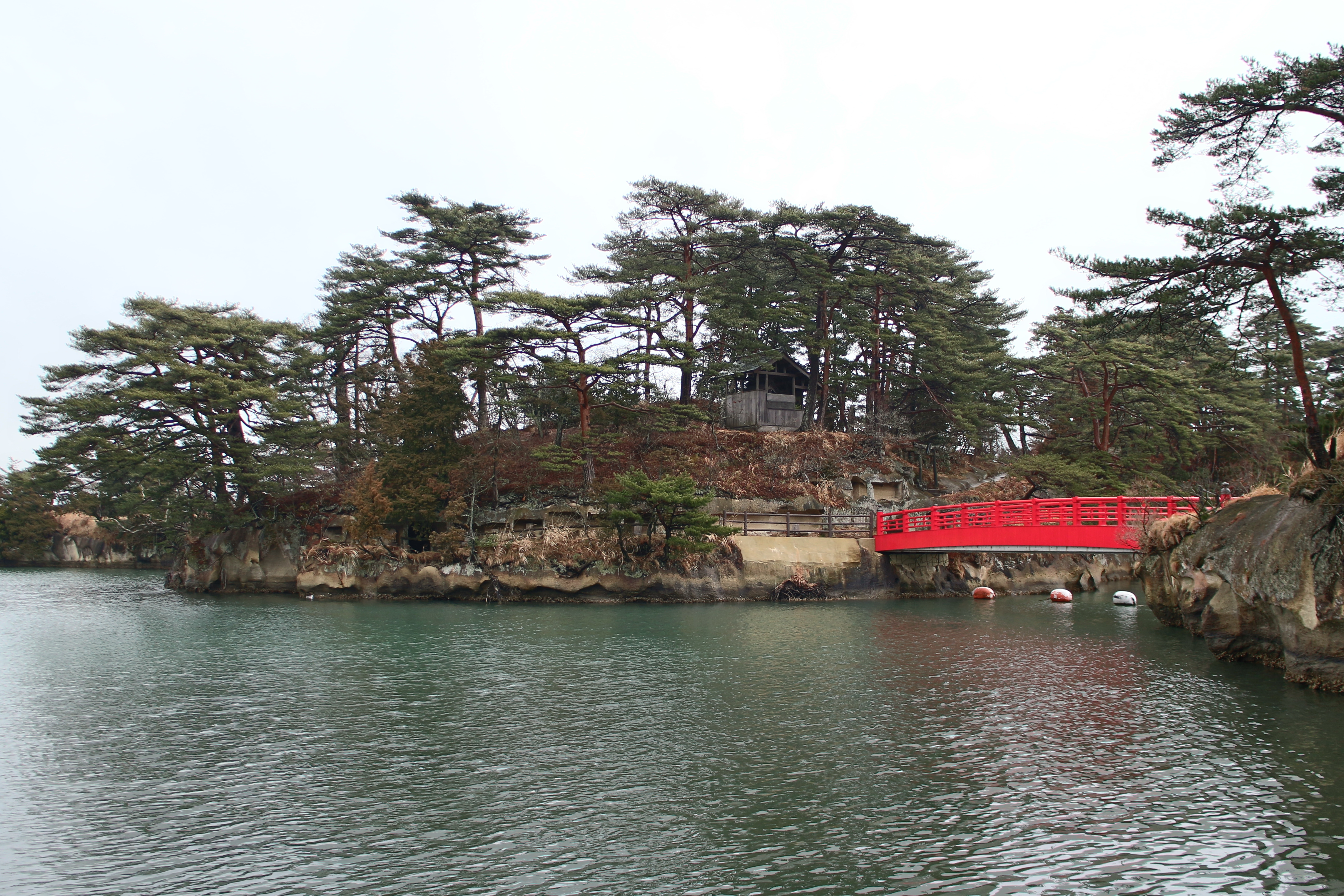 Matsushima (Matsushima Bay)